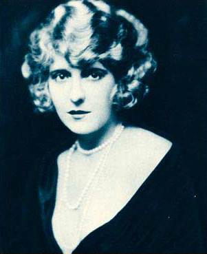 Publicity photo of Pearl White from Stars of the Photoplay. Pearl White, queen of film serials, was born in the Ozark mountains, She got her start on the stage by attracting a traveling showman's attention when she recited "Hamlet's Soliloquy." She made her first screen appearance in western pictures. She is best known for her work in "The Perils of Pauline" and "The Exploits of Elaine," serials. She made numerous other productions since then, both here and abroad, some of which are, "The Broadway Peacock," "Without Fear" and "Plunder." She is five feet, six inches tall, weighs 120 pounds, has light hair and blue eyes.